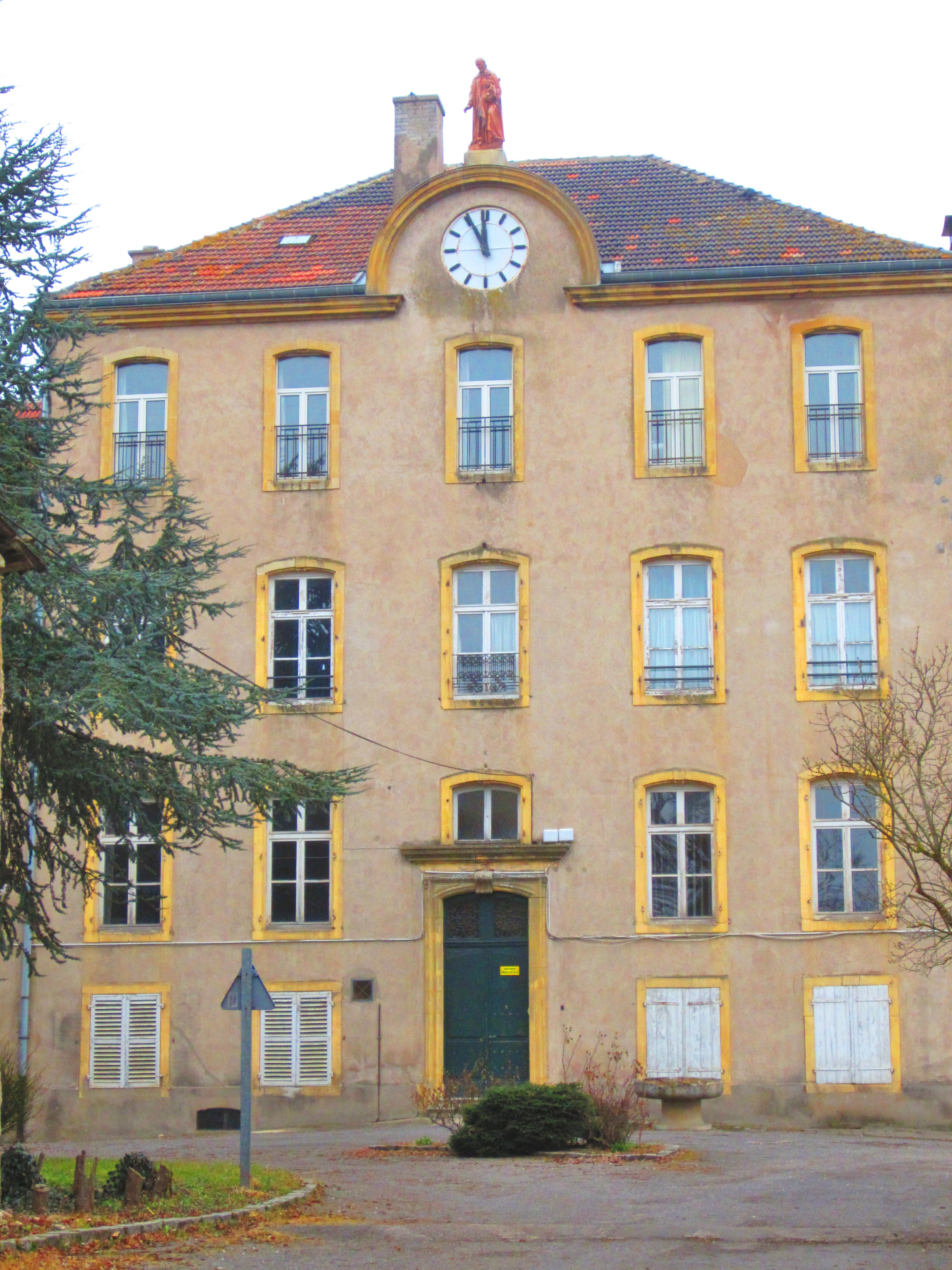 Seminaire Cuvry